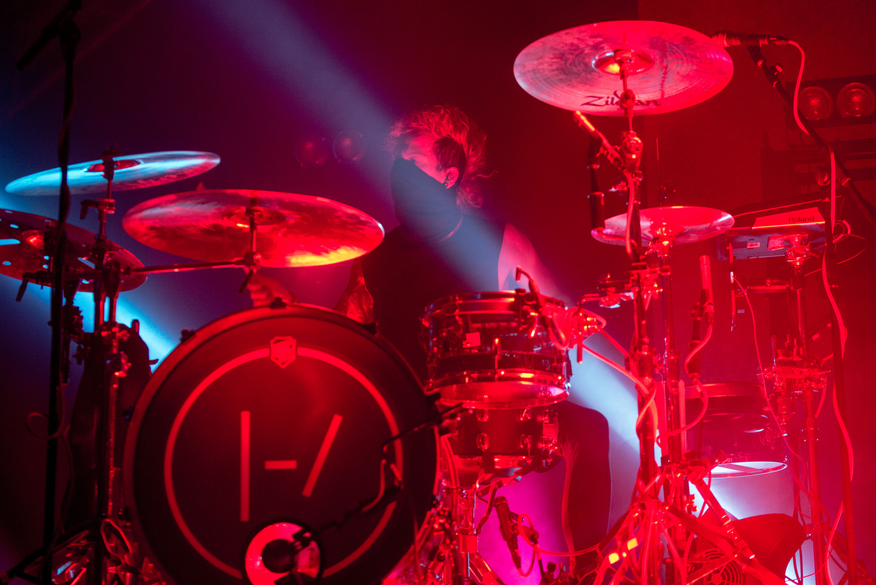 Twenty One Pilots Live @ Munich 2016